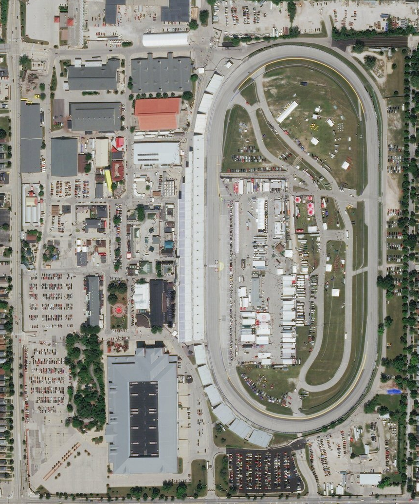 Milwaukee Mile track Landsat satellite image